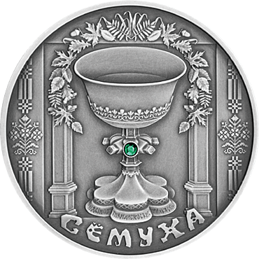 "Siomucha", Silver commemorative coins, denomination: 20 rubles